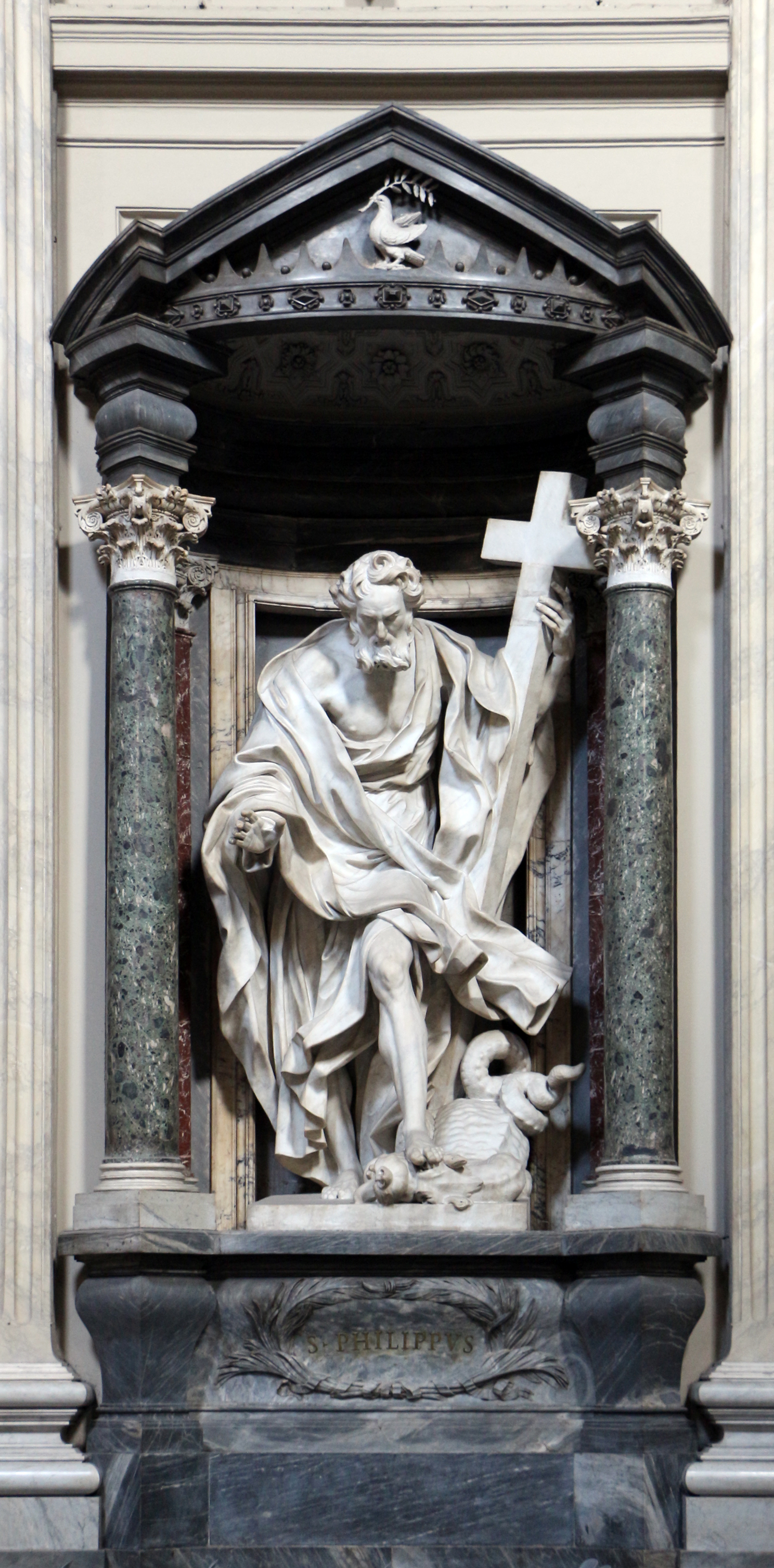 Twelve apostles in San Giovanni in Laterano